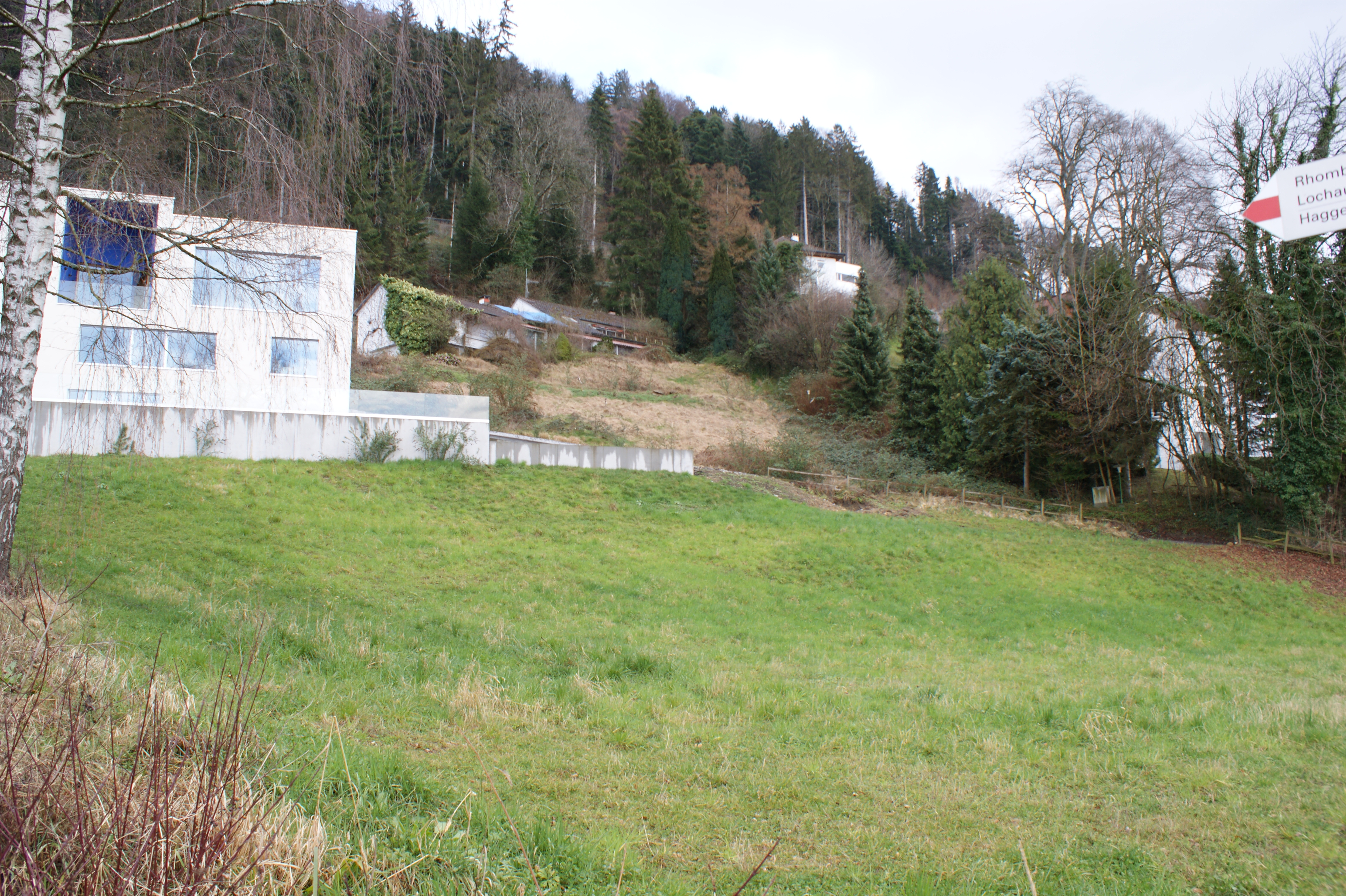 View of part of the former gallow hill (Galgenbihl) from Bregenz in the municipality of Lochau, Vorarlberg, Austria.